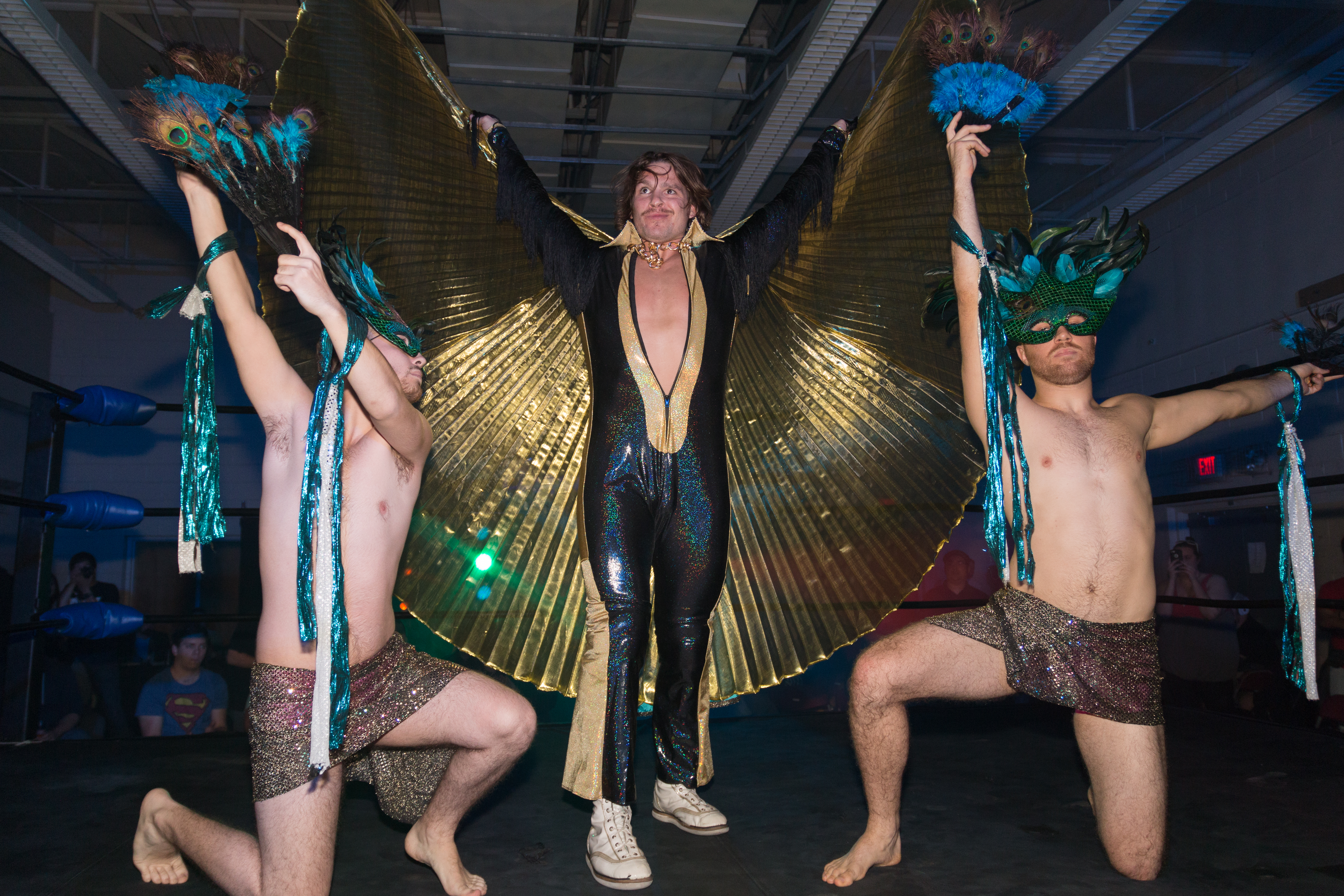 Wrestler Dalton Castle making his ring entrance, flanked by his "boys", at a Smash Wrestling show in Etobicoke, ON. Note that these are not the regular "boys" that appear in Ring of Honor.